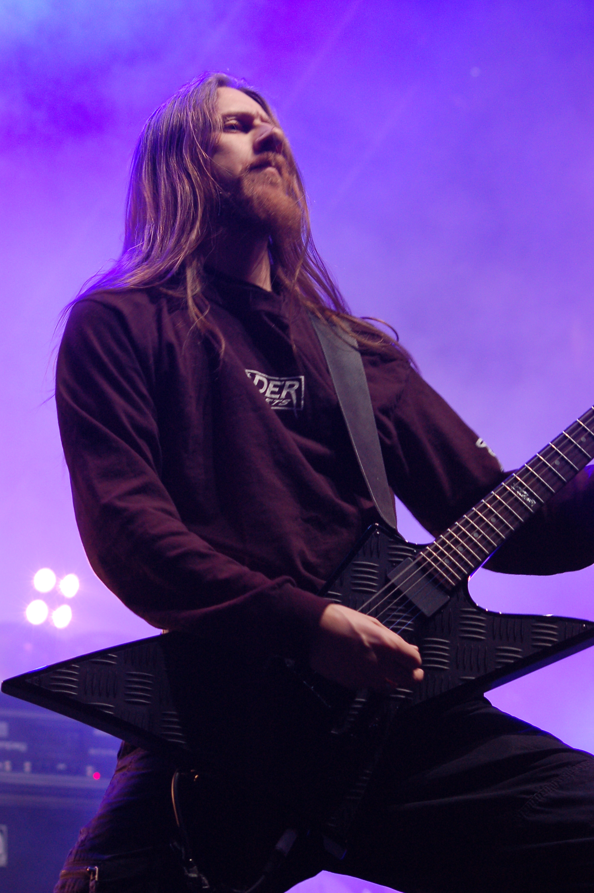 Tomas 'Samoth' Haugen from Zyklon during Metalmania 2007 festival